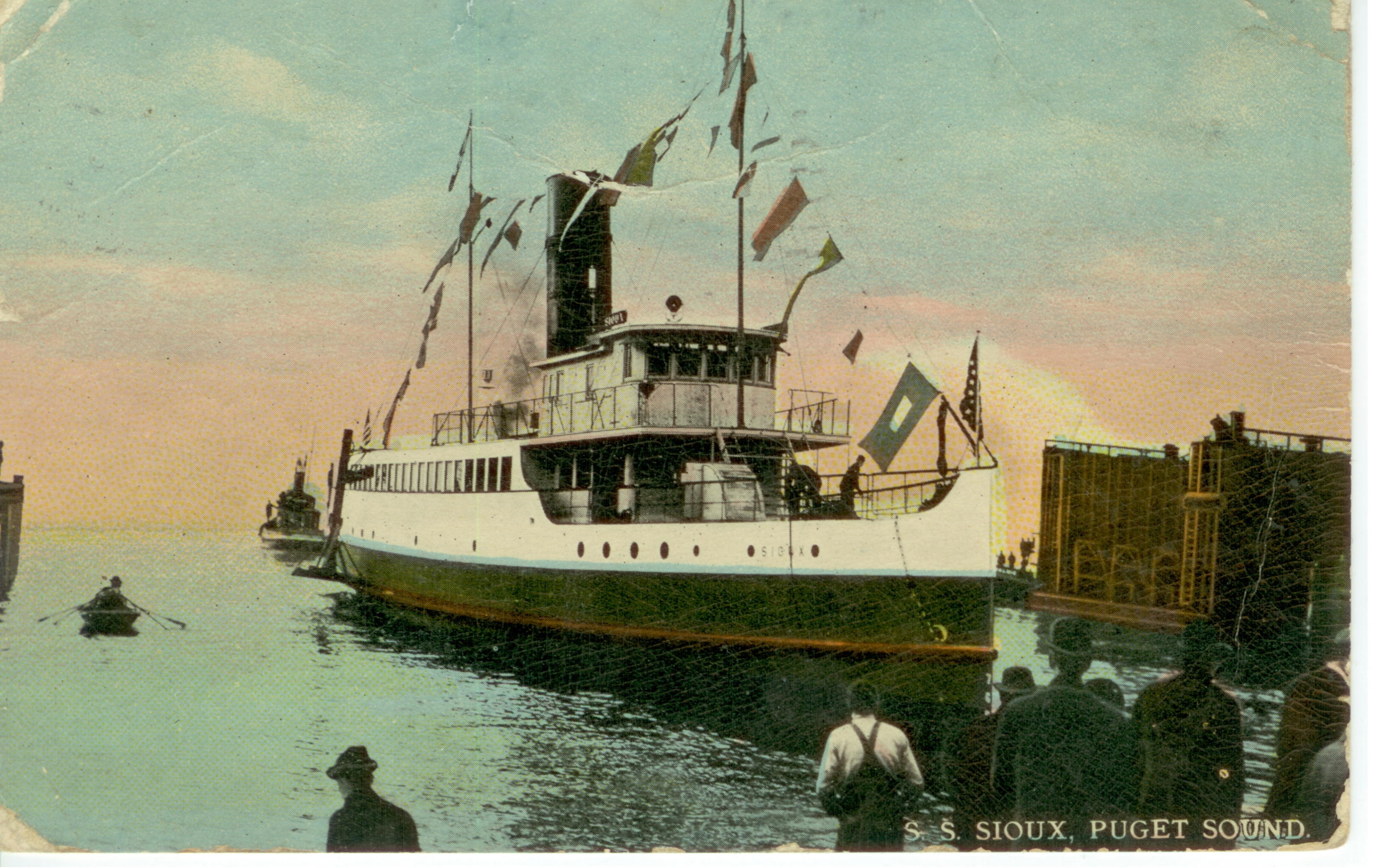 steamship Sioux, somewhere on Puget Sound